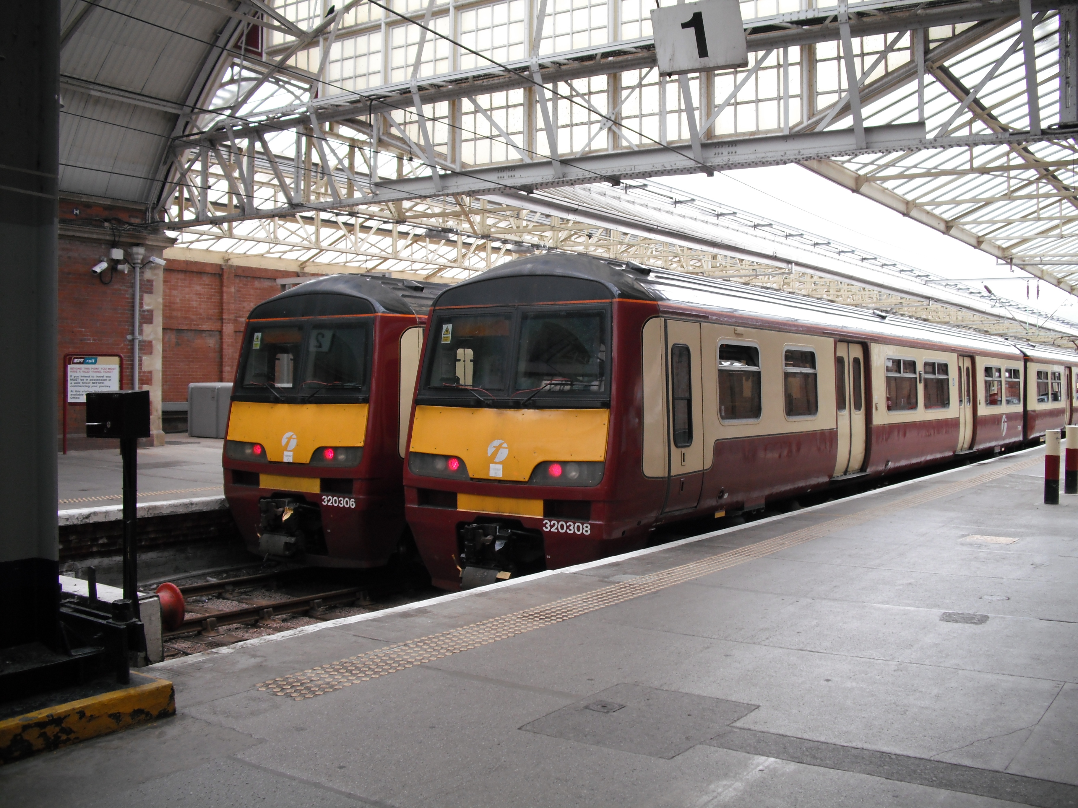 SPT 320s - 320306 and 320 308 - at Helensburgh Central